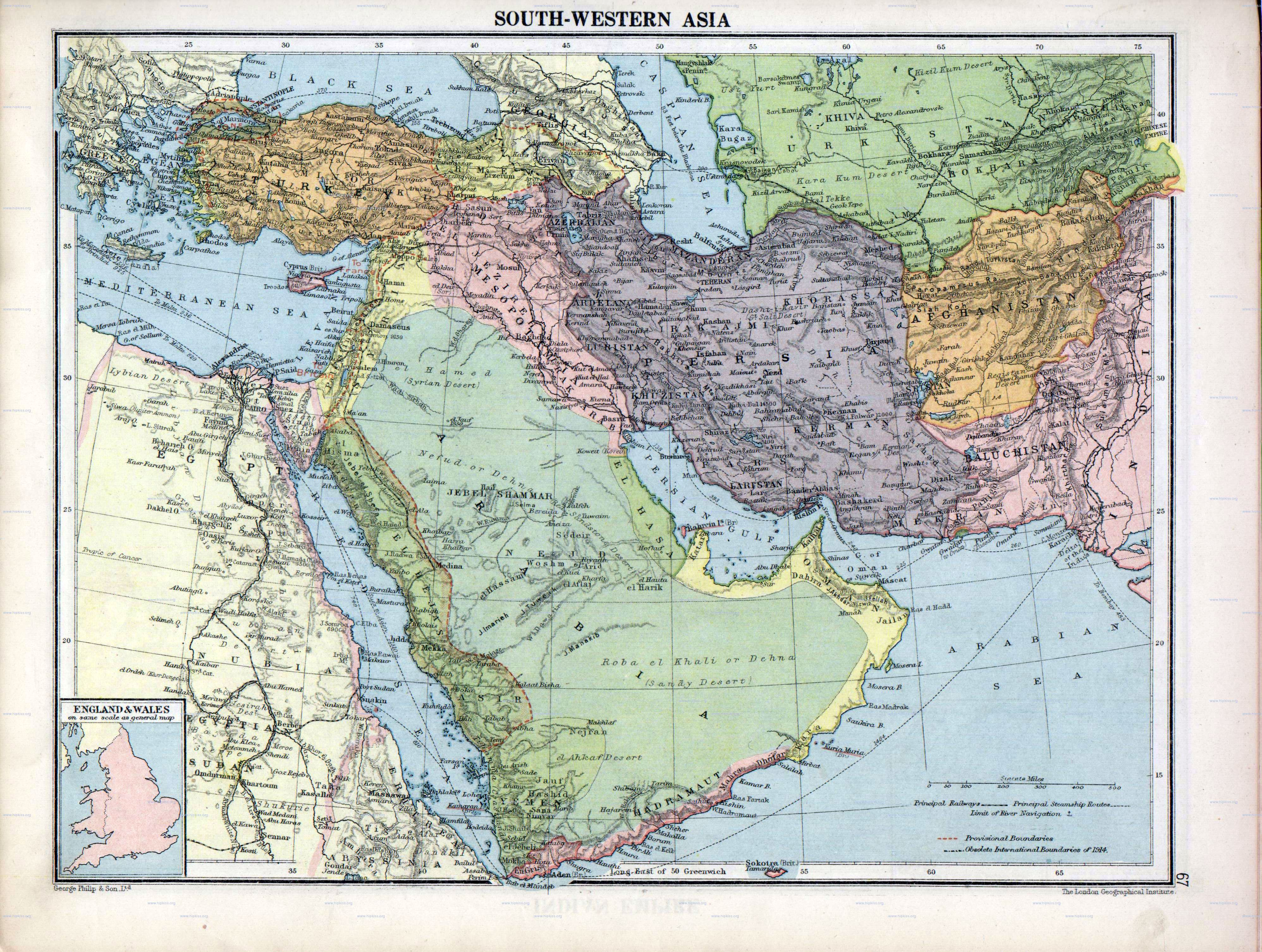 Asia South Western